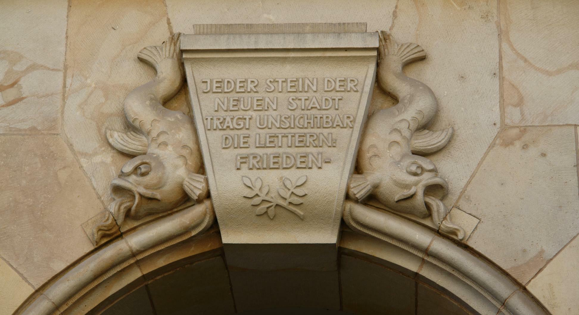 Keystone of the door arch of Weiße Gasse 5/7 in the inner city of Dresden. Its inscript translates to: Every stone of the new city carries invisible the letters: Peace